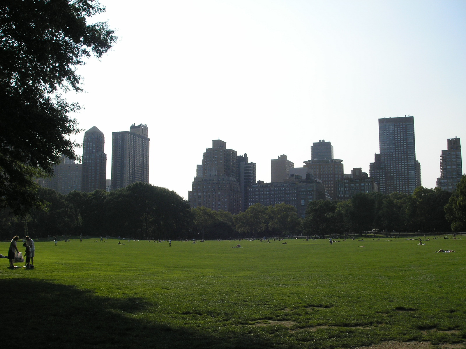 The Sheep Meadow in Central Park, New York City. This 15-acre lawn is named after the sheep that grazed here until 1934. The flock housed a sheepfold, which was subsequently converted into Tavern on the Green. The lawn was restored by the City of New York in 1981. The area is reserved for quiet enjoyment only. Musical instruments are not allowed, and earphones are required for radios. As of 2007, the lawn is open Mid-April to Mid-November, from 11:00 am to dusk.